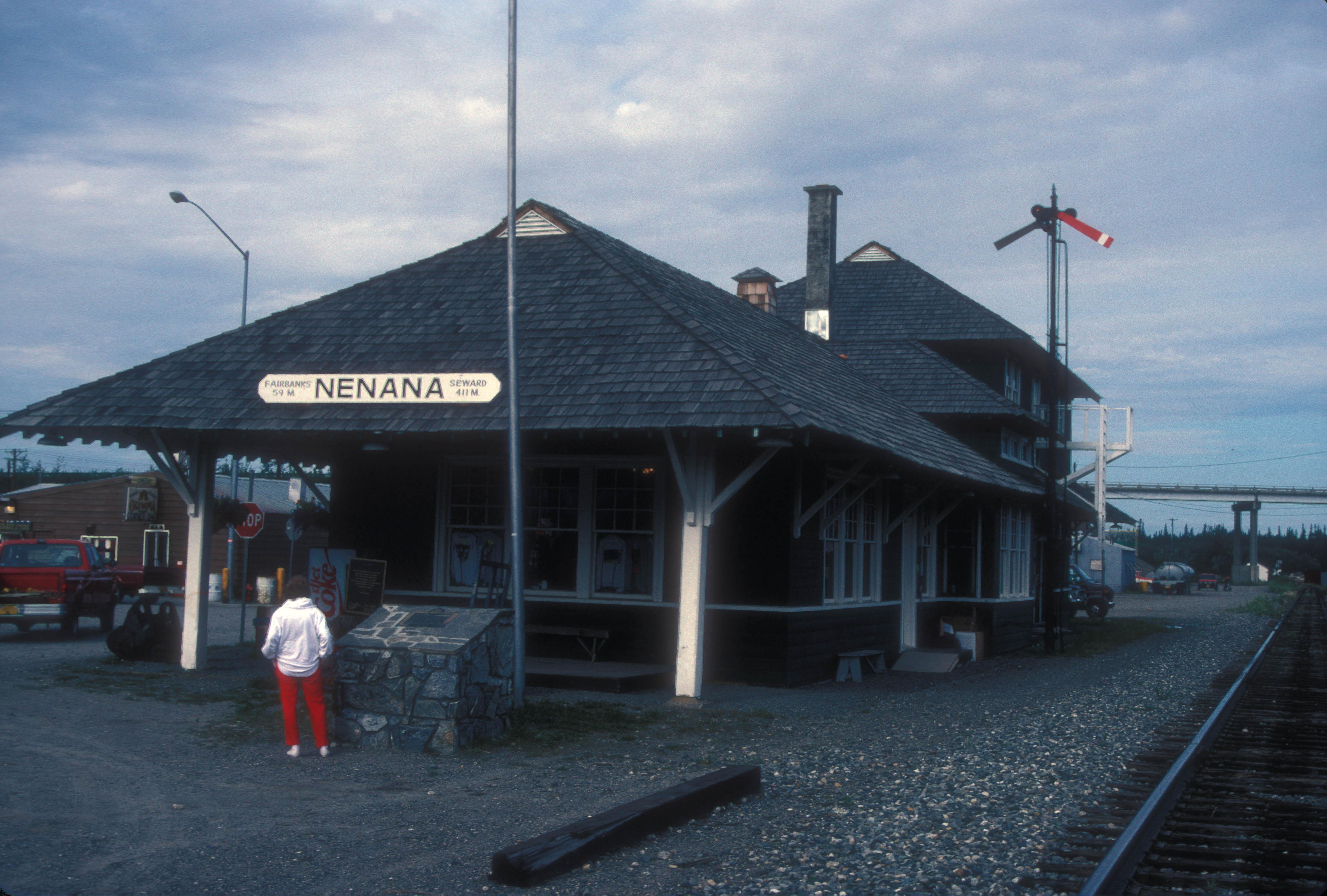 RAILWAY COMPLETED IN 1923 WHERE PRESIDENT HARDING DROVE THE GOLDEN SPIKE THAT COMPLETED THE ALASKA RAILROAD FROM ANCHORAGE TO FAIRBANKS